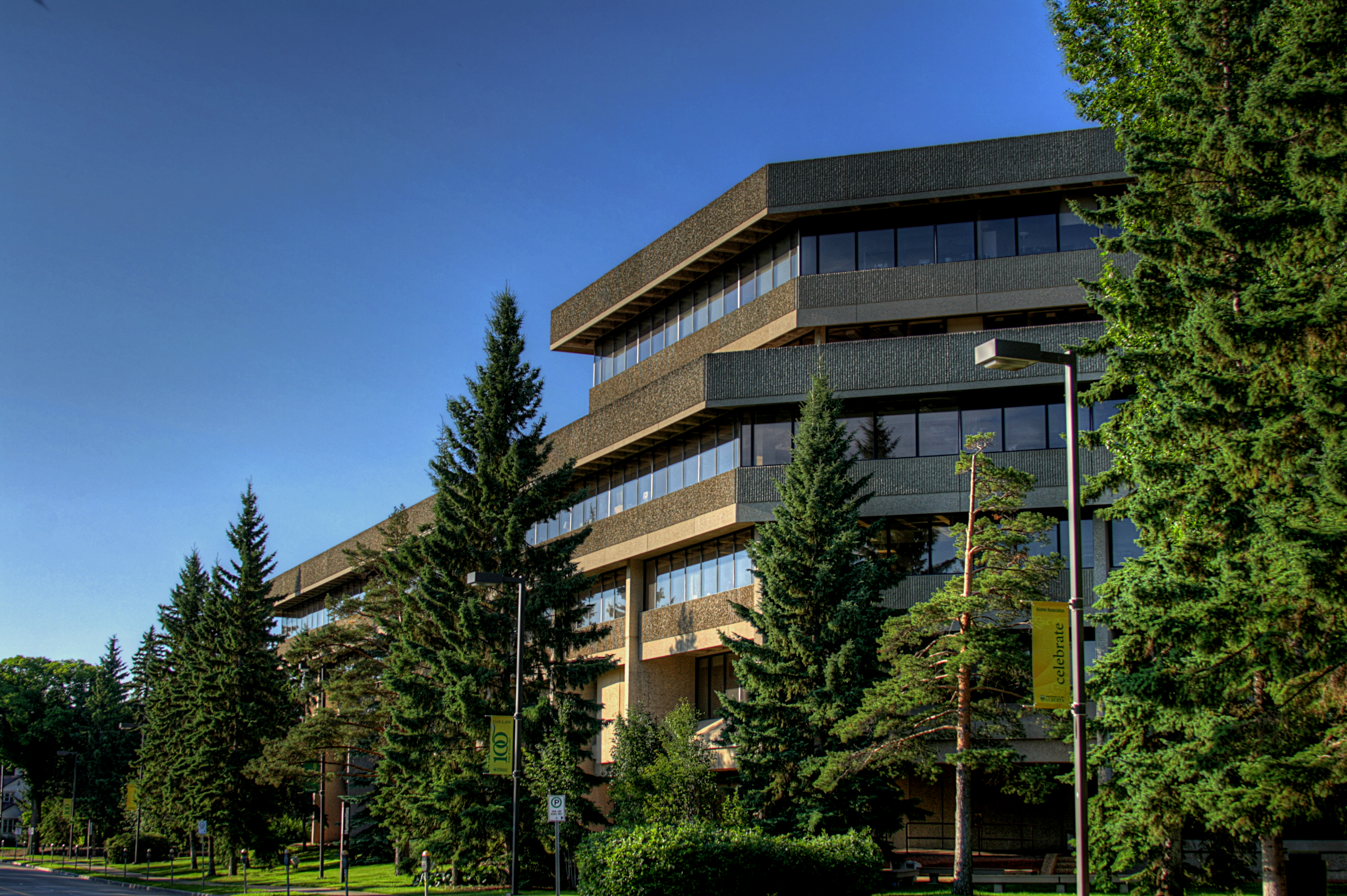 The Humanities Centre on the north campus of the University of Alberta, Edmonton, Alberta, Canada.